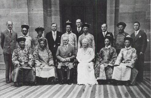 The Tibet Victory Congratulations mission in India: (left to right, front) Thubten Sangpo, Targang, Lord and Lady Waverly, Kheme Dzasa, Kusantse (2 March 1946)